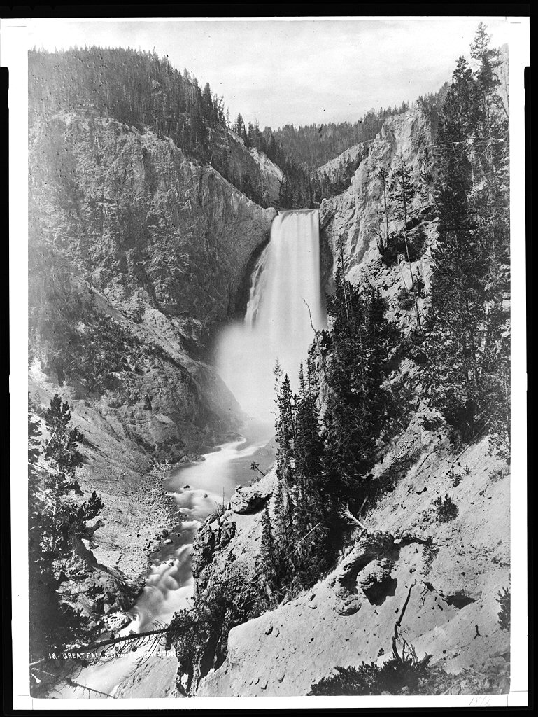 Photo of Lower Yellowstone Falls by William Henry Jackson, 1871 taken during the Hayden Expedition to Yellowstone in 1871